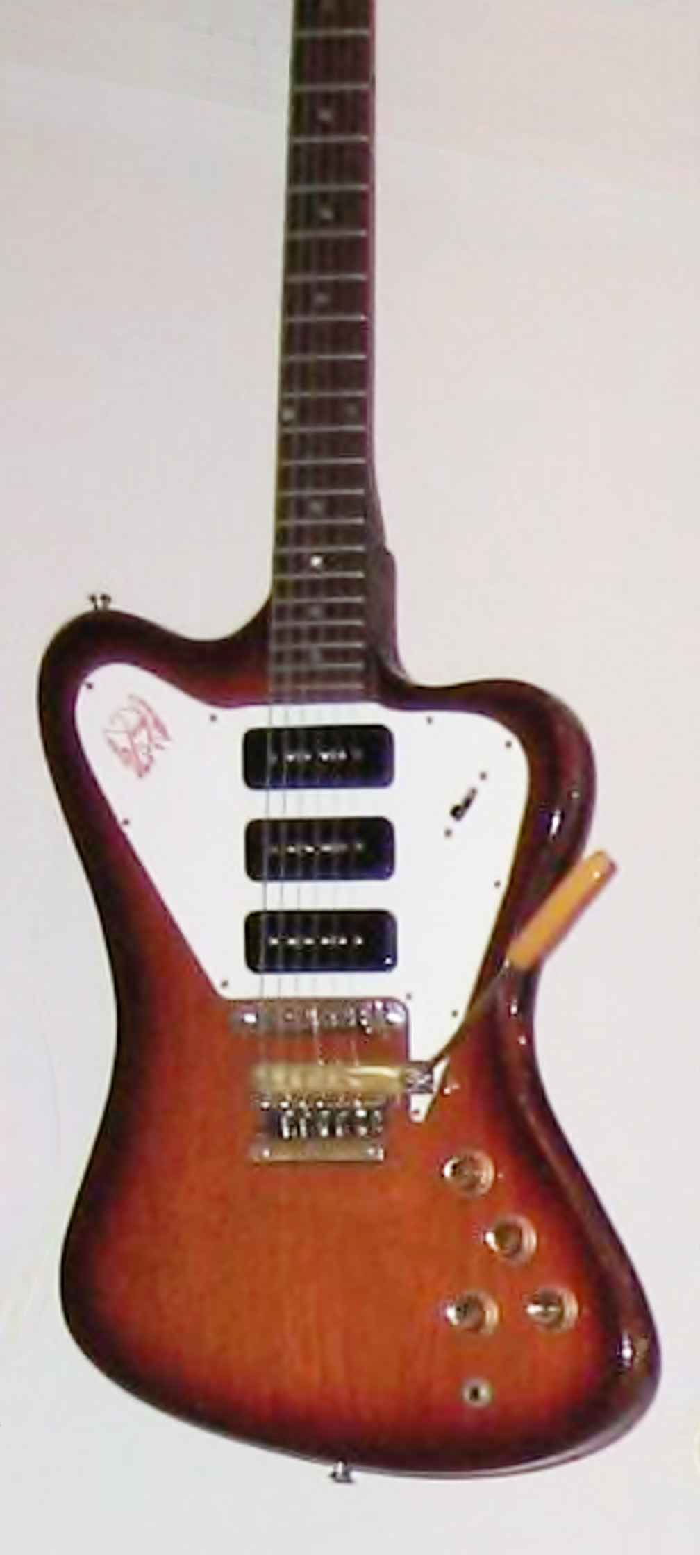 Gibson Firebird III Non-reverse (glue-in neck, stopbar bridge/short Vibrola, 3×P90 P.U.)